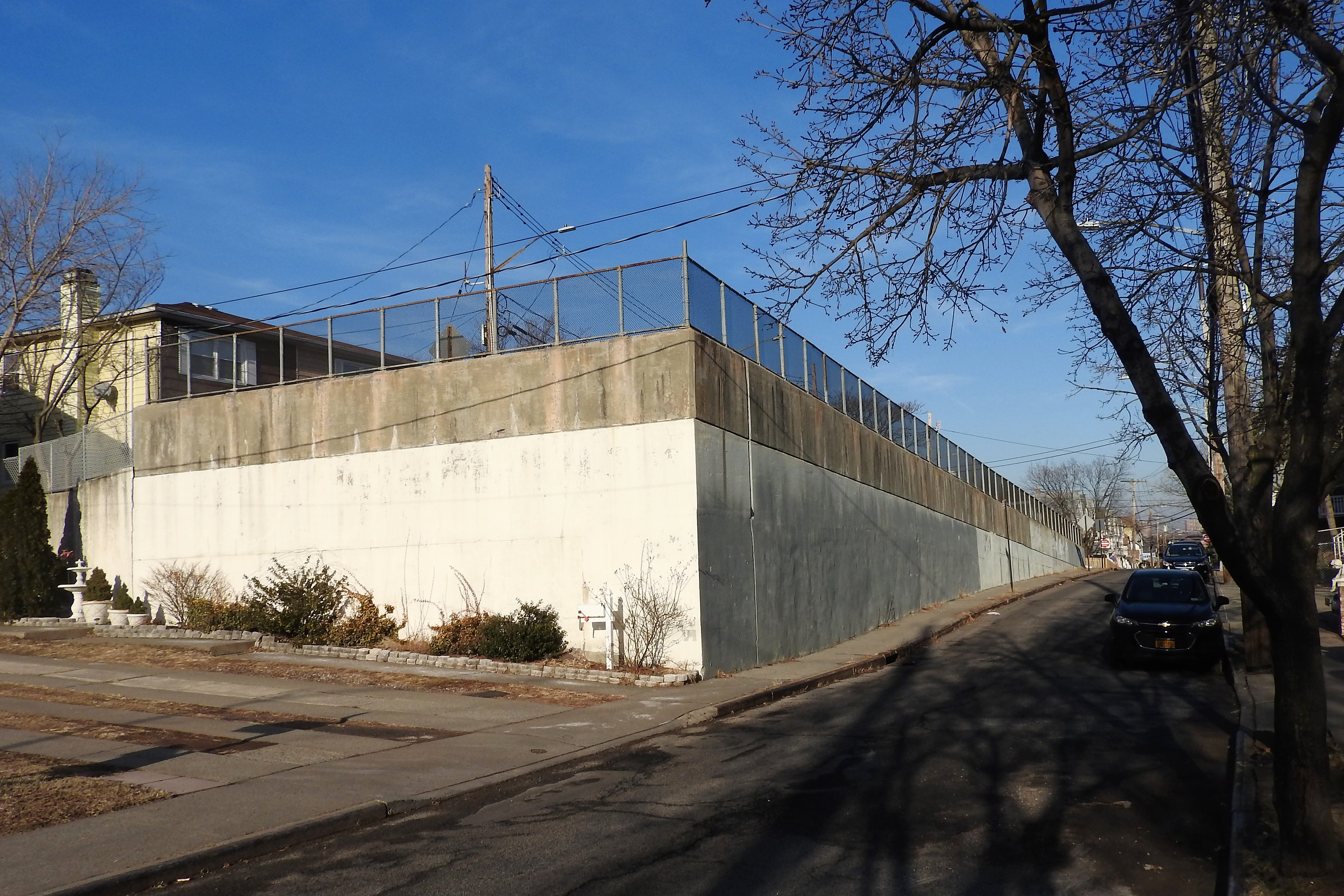 Looking north at former bridge approach, from former location of southbound track